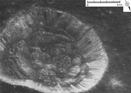 This view of the Carrel crater shows numerous bright avalanche deposits on the steep crater walls, apparently originating at outcrop ledges near the top of the wall.